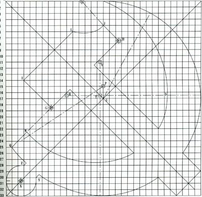 Construction sheet of party symbol of Communist Party of China